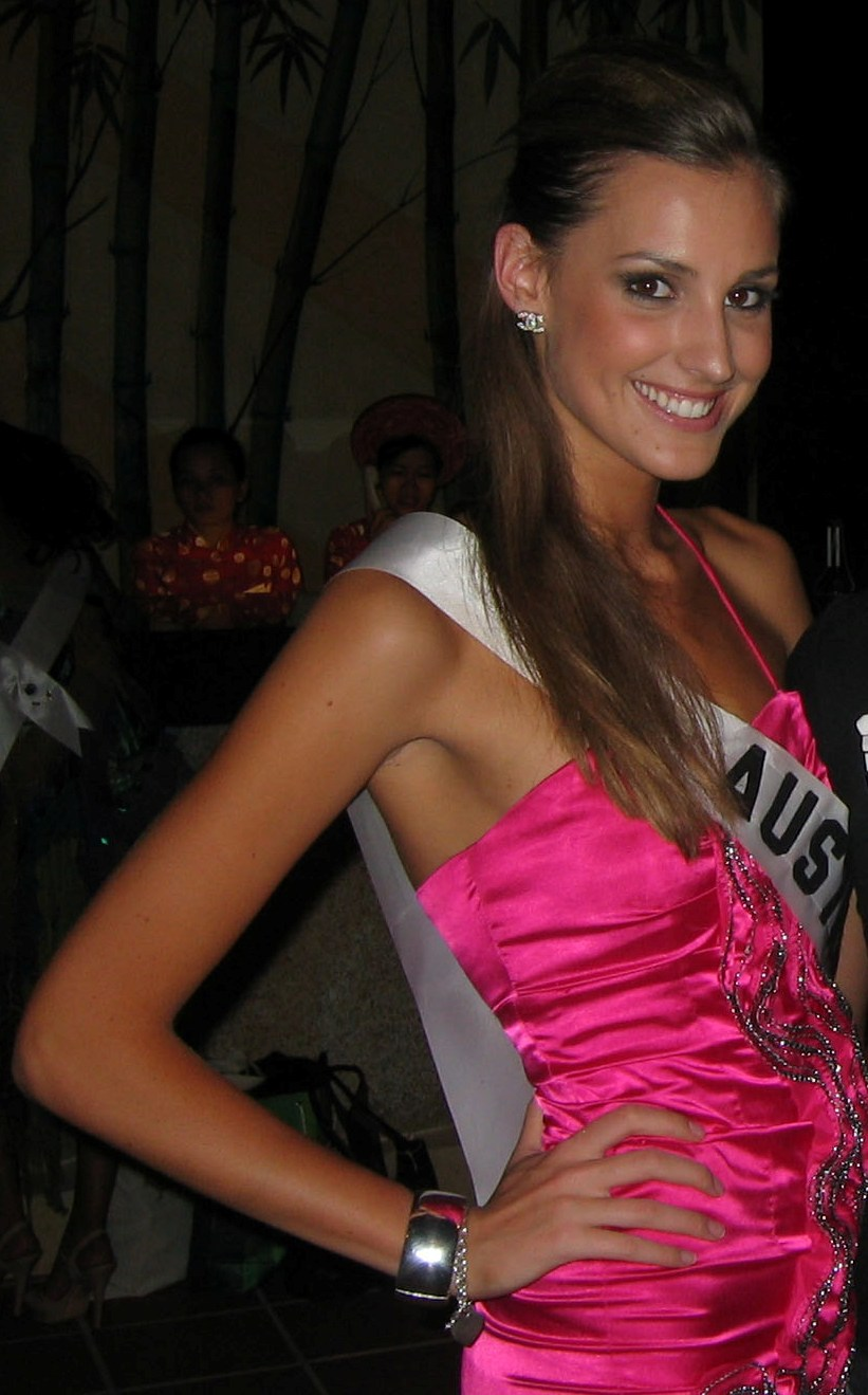 Laura Dundovic, Miss Australia - Universe 2008